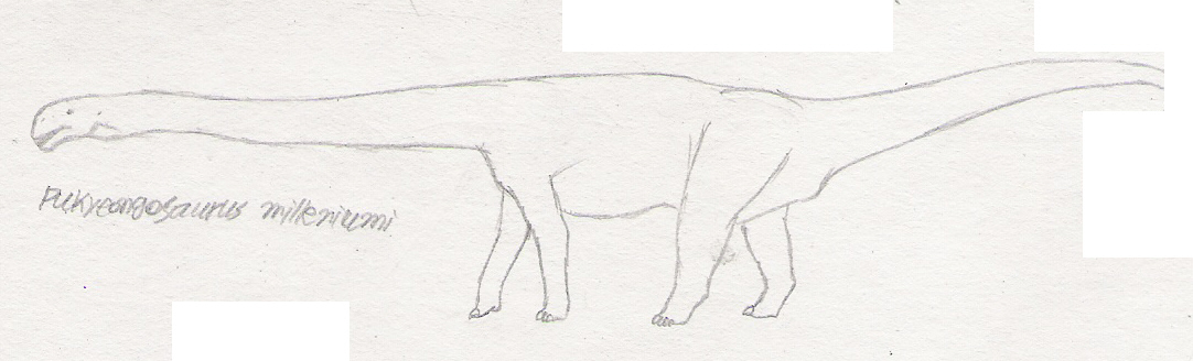 Pukyongosaurus milleniumi, a Mamenchisaurus-like sauropod from south korea.